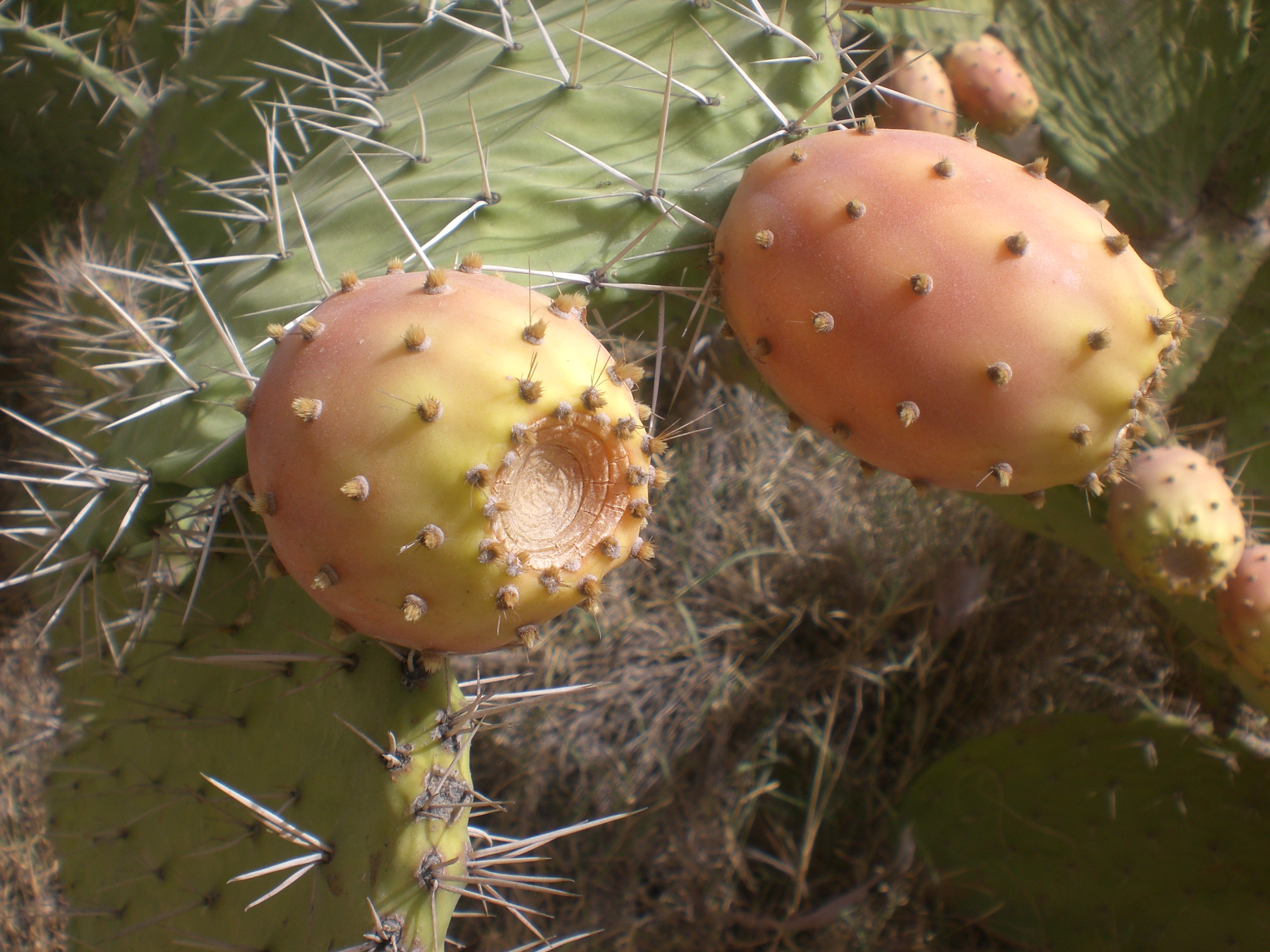 Figue de Barbarie